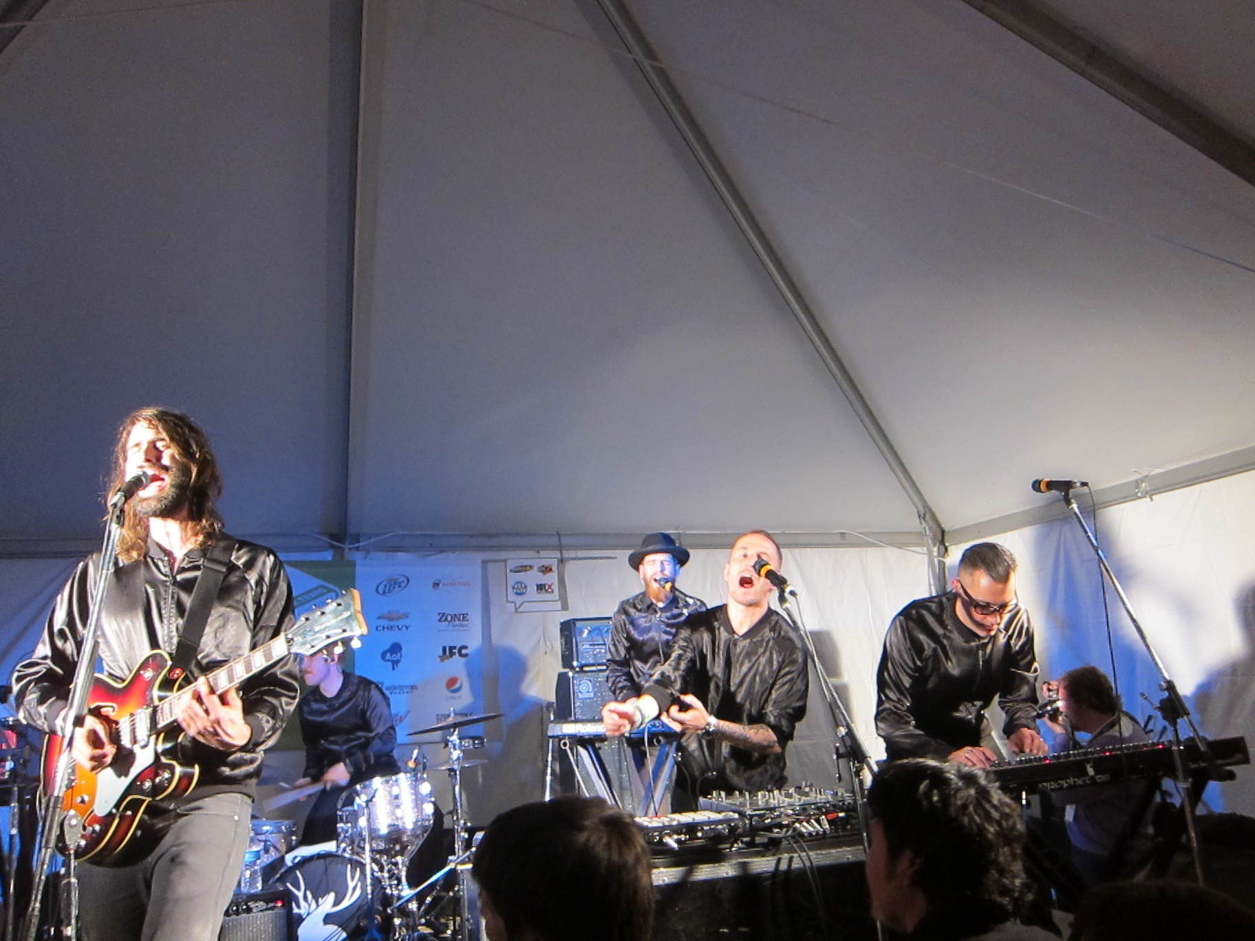 Miike Snow @ KCRW SXSW